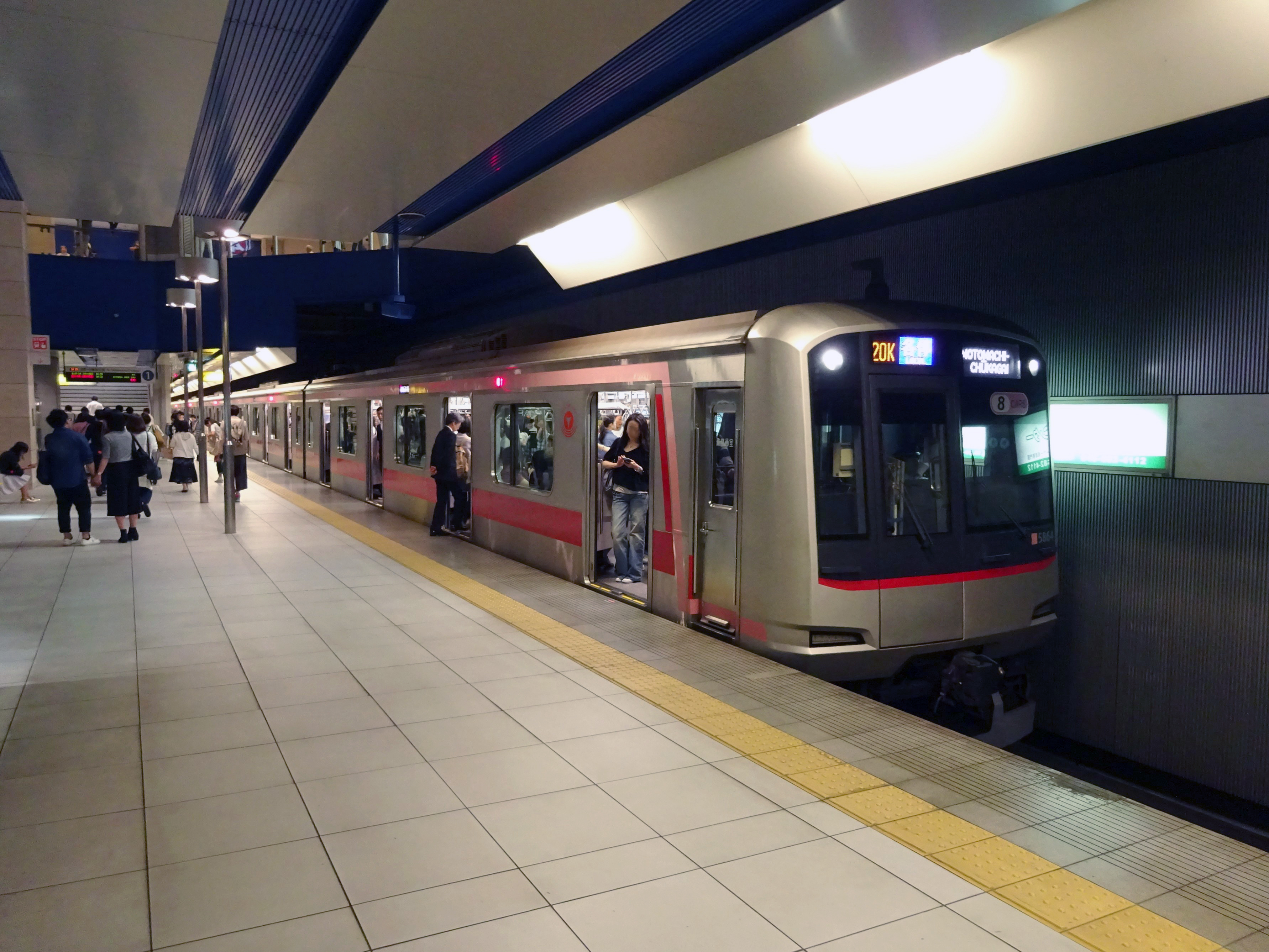 A Tokyu 5050 series EMU at Minatomirai Station